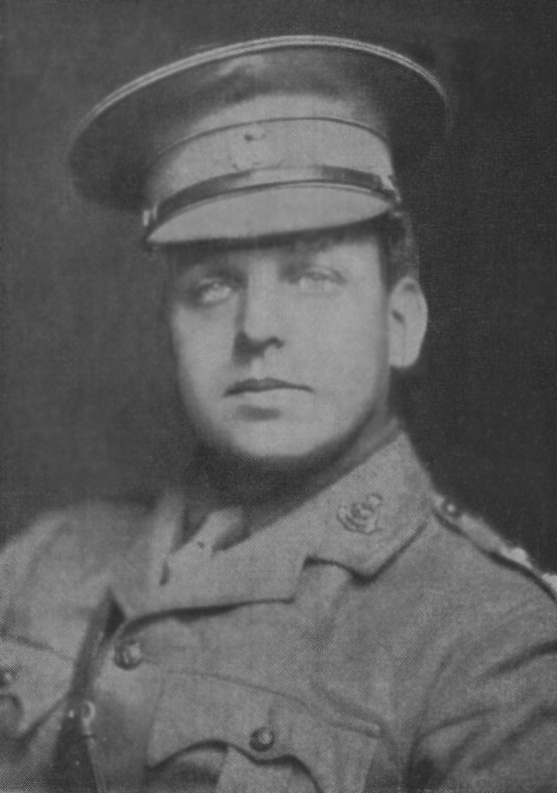 Neil James Archibald Primrose (1882-1917), MP, in a photograph published following his death in the First World War.